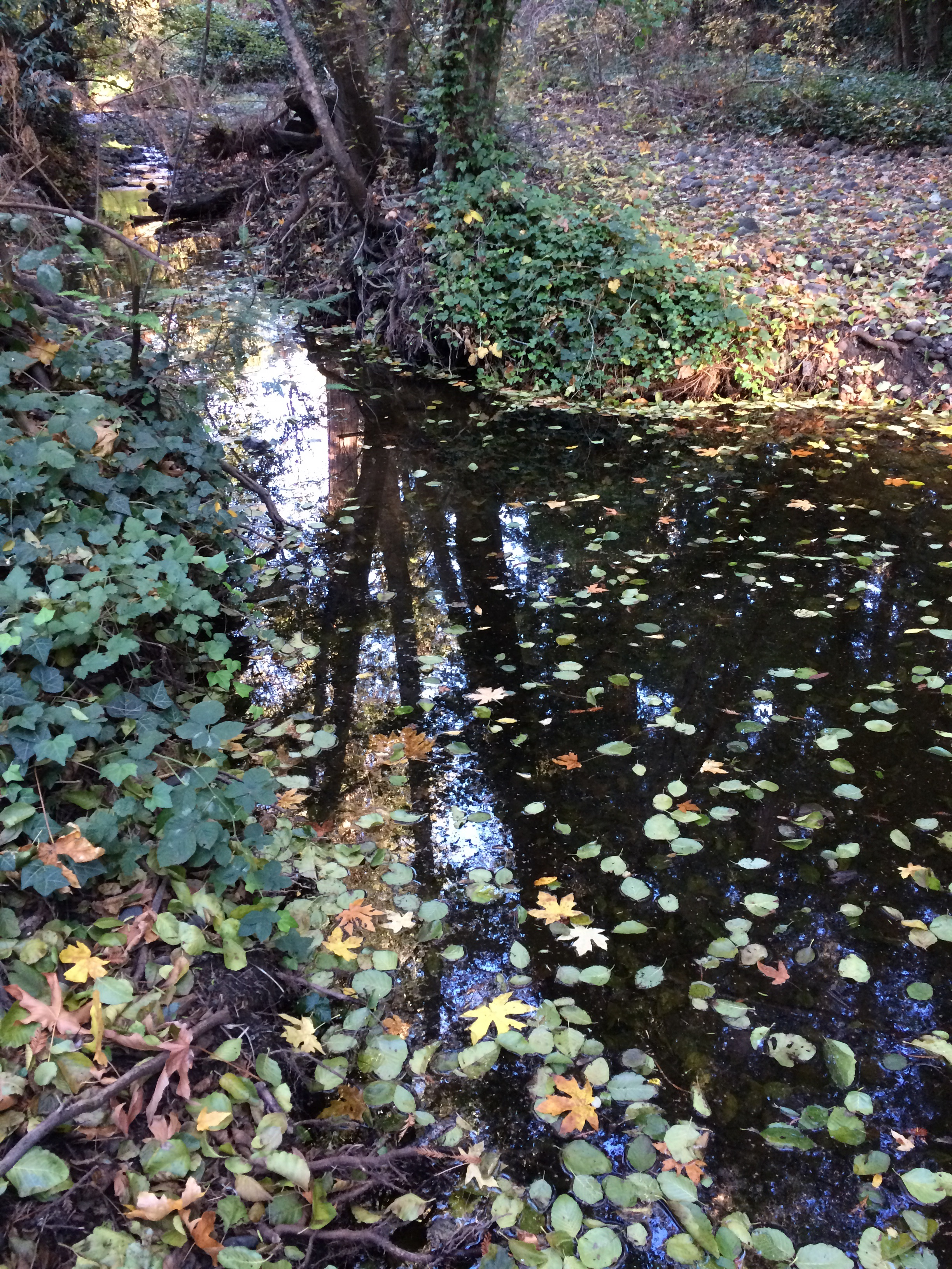 Upstream view of La Honda Creek at Play Bowl in November 2015.